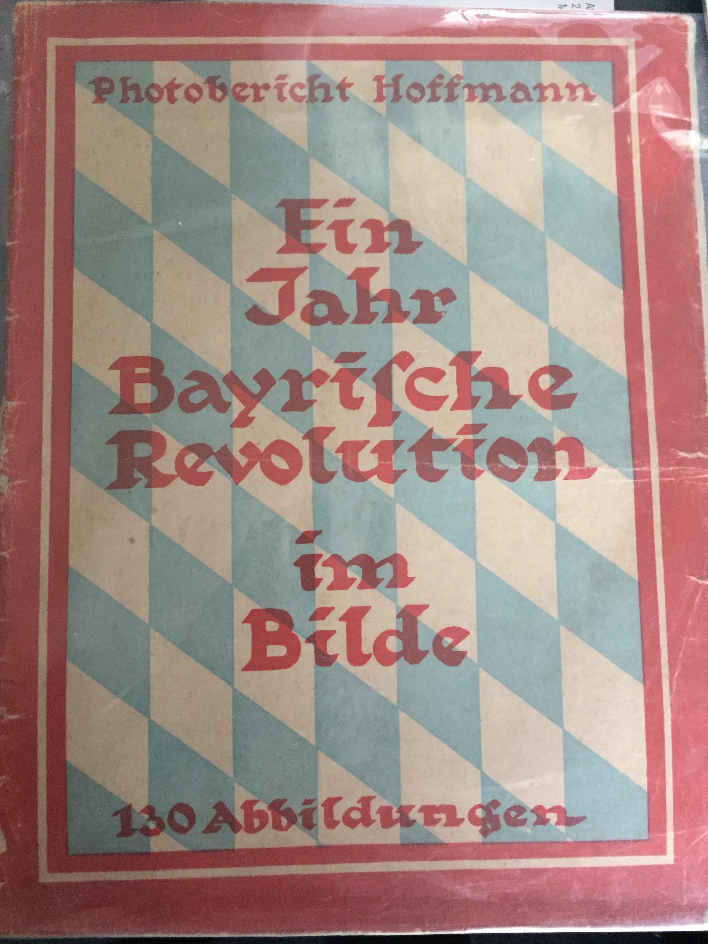 Heinrich Hoffmann's first printed book